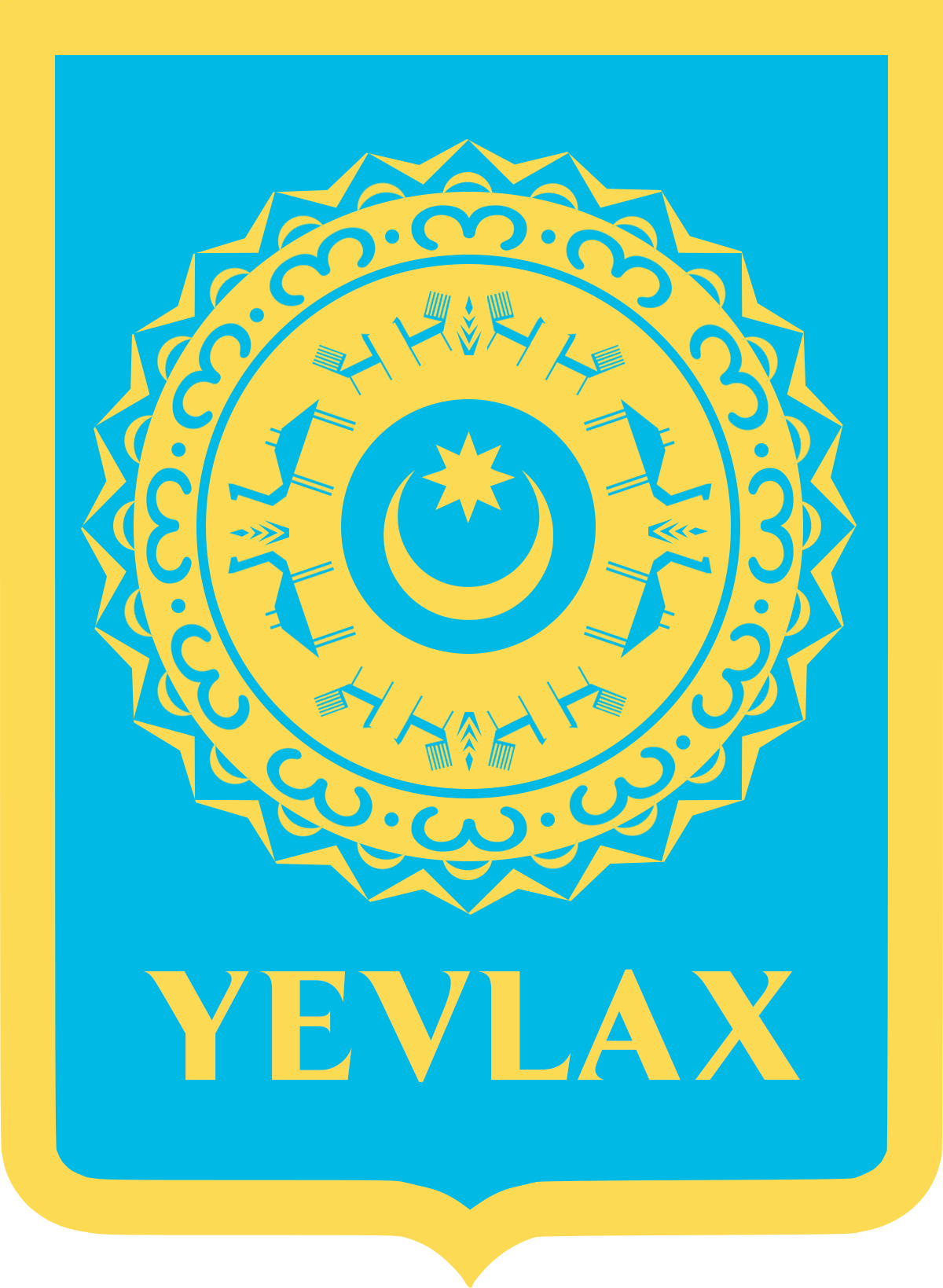 coat of arms of Yevlax